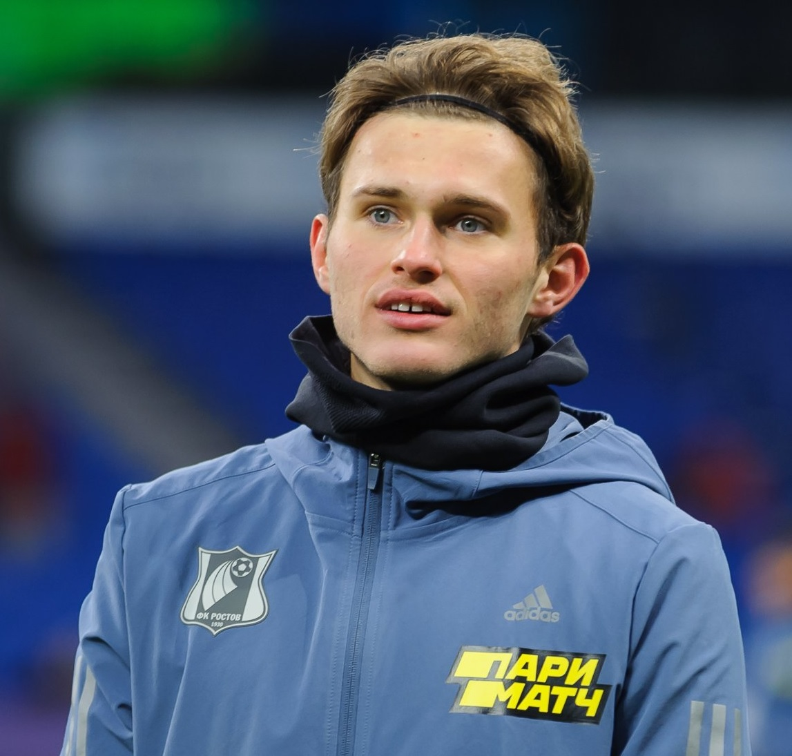 Danila Proshlyakov with FC Rostov before the game against FC Dynamo Moscow.